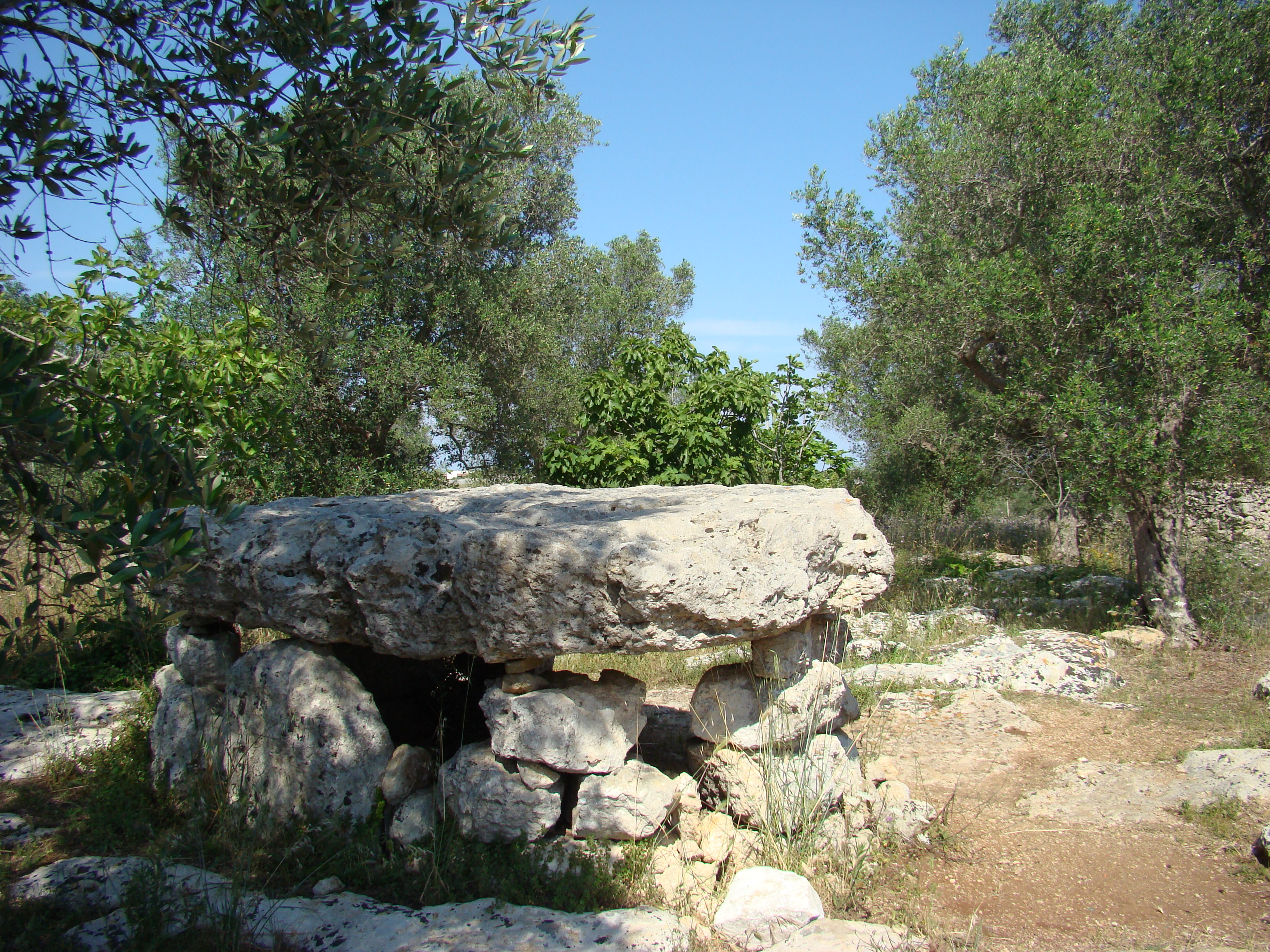 Scusi Dolmen near Minervino